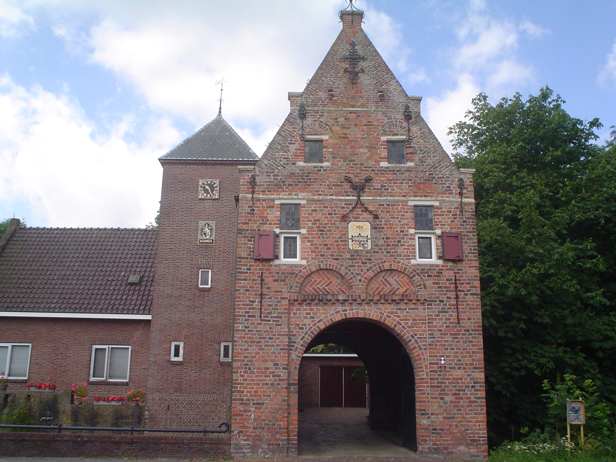 Asingaborg in Middelstum, province Groningen (The Netherlands)